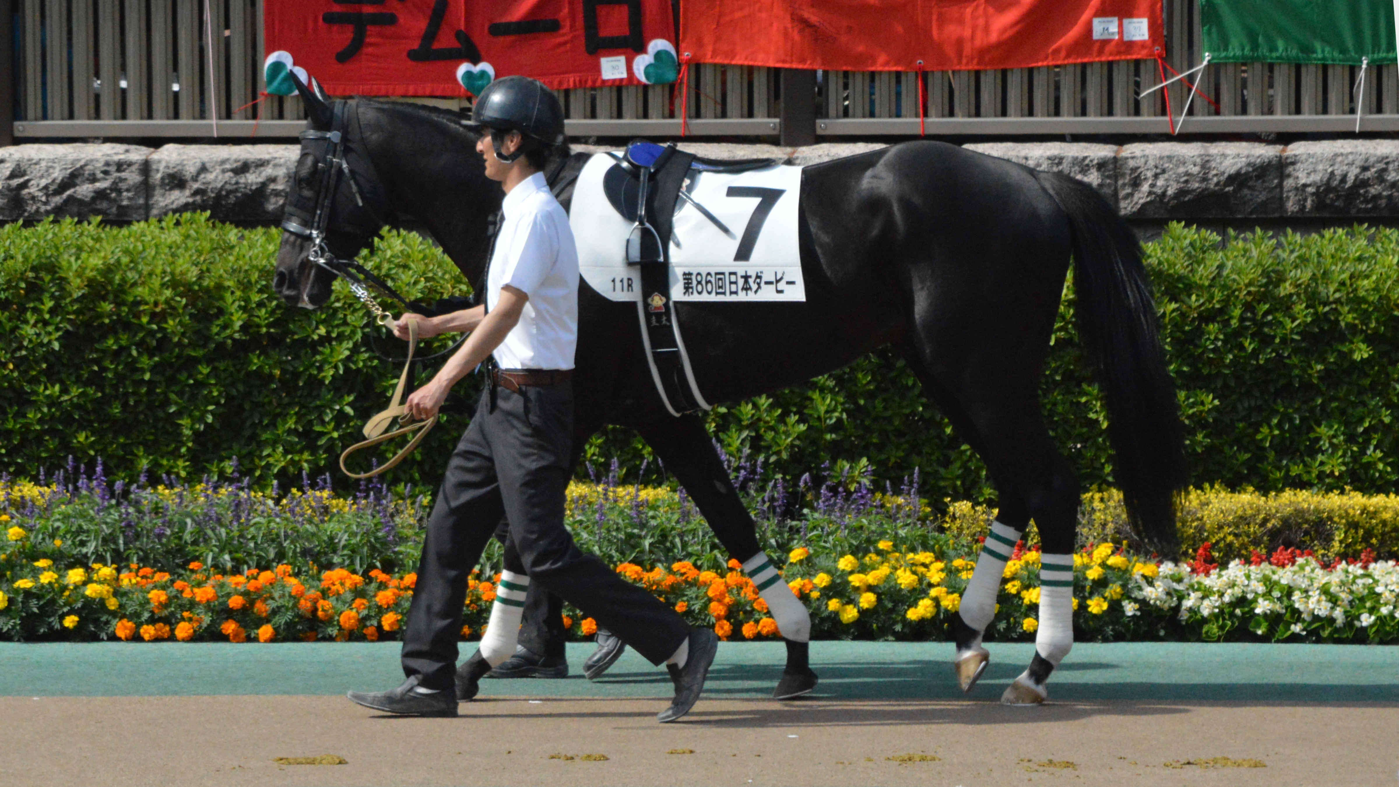 Japanese race horse Danon Kingly at Tokyo racecourse. Tokyo (JPN) 26 May 2019Tokyo Yushun (Japanese Derby) (Grade 1) (3yo Colts & Fillies) (Turf) 1m4f Firm RankHorse NameOddsAgeWgtJockeyTrainer1stRoger Barows (JPN)92/1C39-0Suguru HamanakaKatsuhiko Sumii2ndDanon Kingly (JPN)37/10C39-0Keita TosakiKiyoshi HagiwaraOthers are omitted. (18 horses entered in a race.)